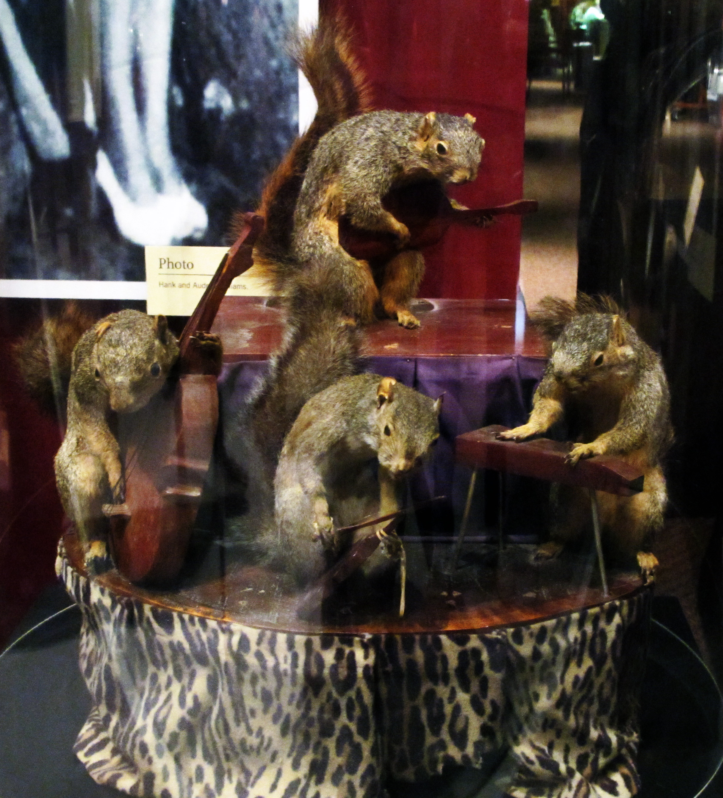 These squirrels shot by Hank Williams were taxidermied and posed with tiny wooden instruments to resemble Williams and his band the Drifting Cowboys. Items from the Country Music Hall of Fame and Museum.